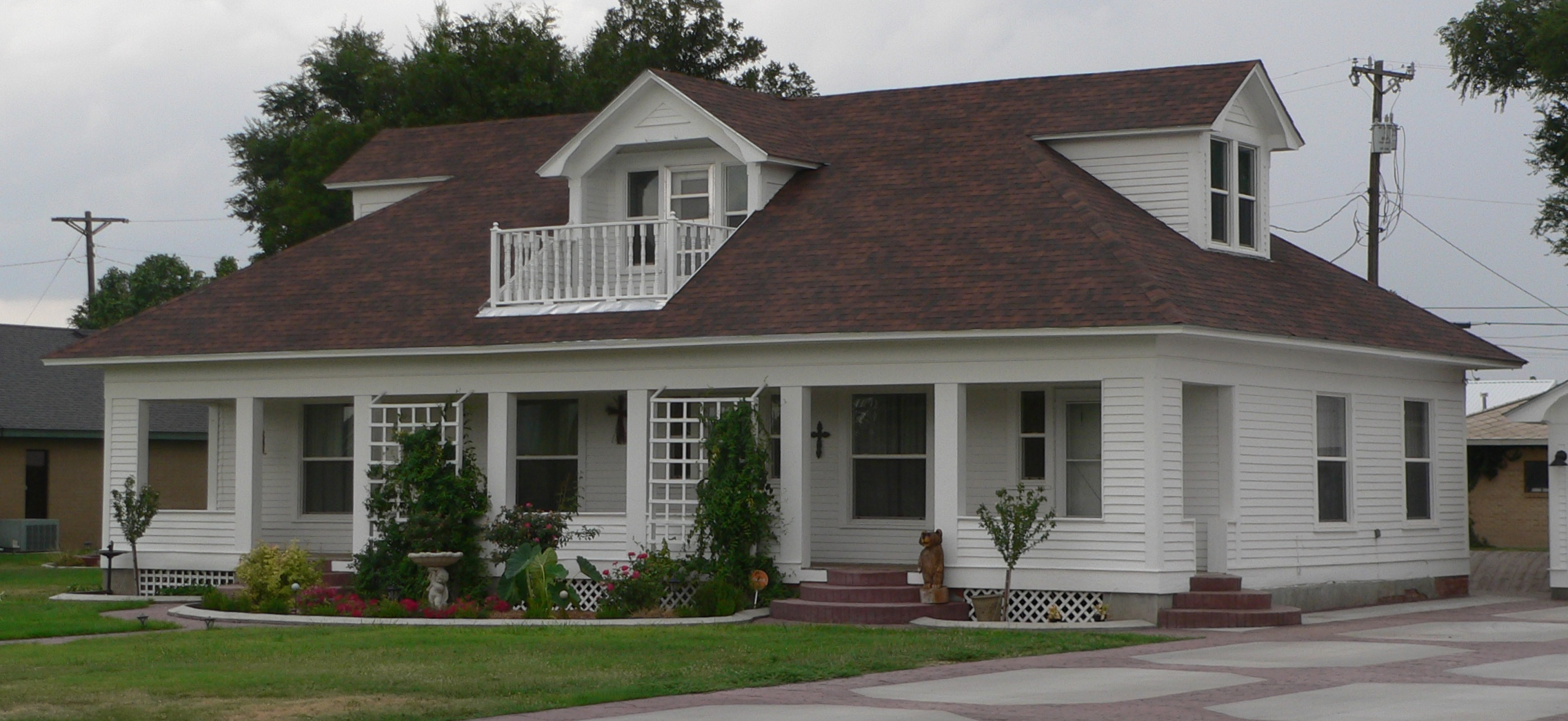 Danholt — house located at 1208 N. May in Guymon, Oklahoma. Seen from the northeast.